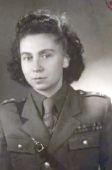 Helena Wolińska (1919-2008) - military prosecutor in postwar communist Poland with the rank of lieutenant-colonel (podpułkownik), involved in Stalinist regime show trials of the 1950s